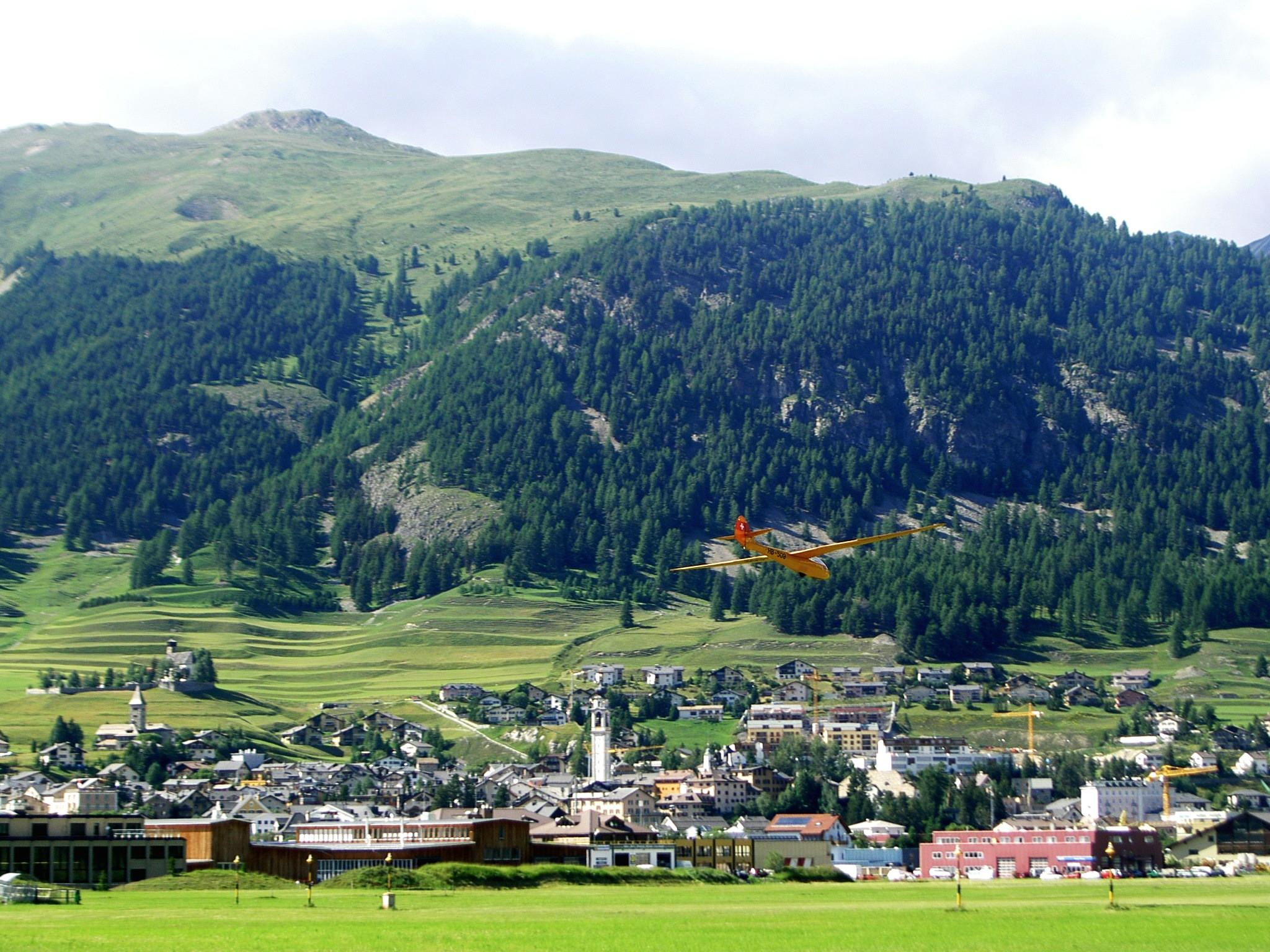 Samedan from airport (highest airport in Europe, 1700 m), Graubünden